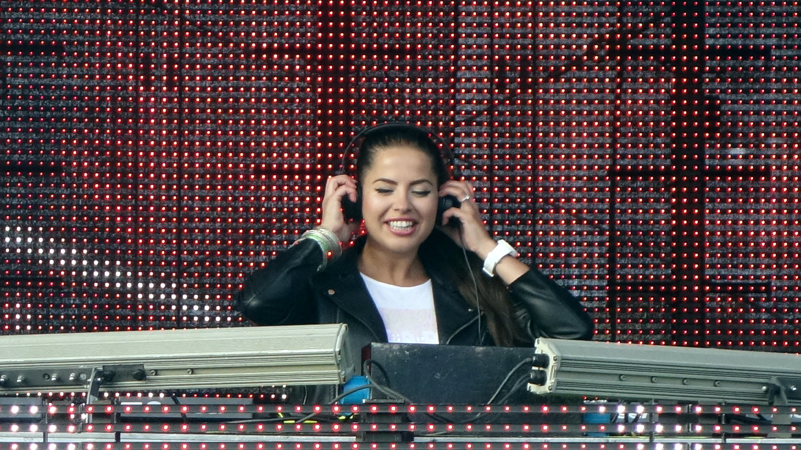 Ukrainian hardcore/gabber DJ Miss K8 during a concert at Summerburst in Stockholm, 10 June, 2016.